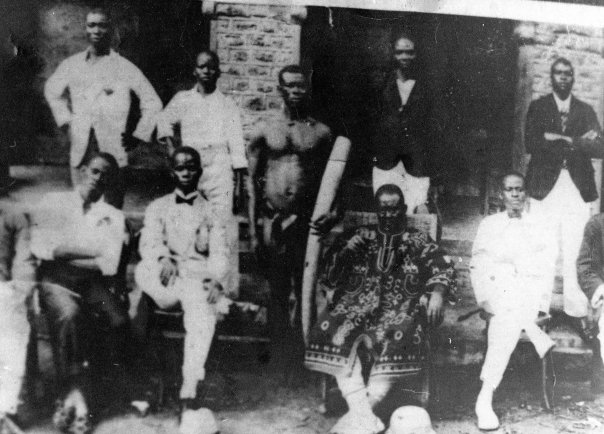 Ojiako Ezenne, Nnoli Ezenne(standing behind him), and Staff, circa 1903.